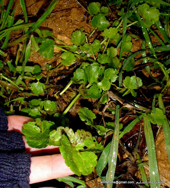 نبات برّي سوري يؤكل